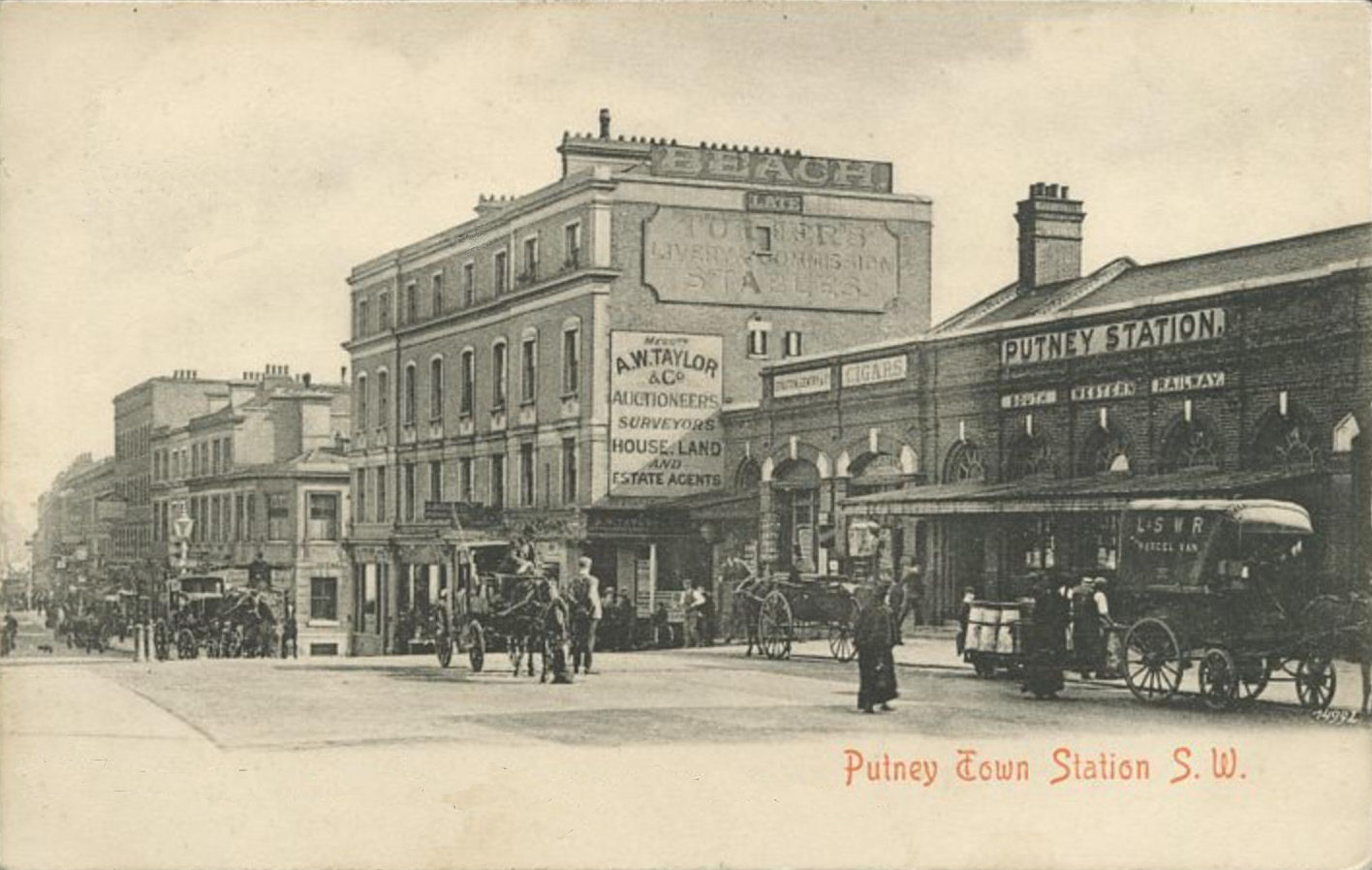 Putney (Town) station at street level LSWR England